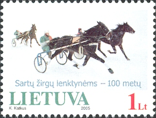 Stamps of Lithuania, 2005